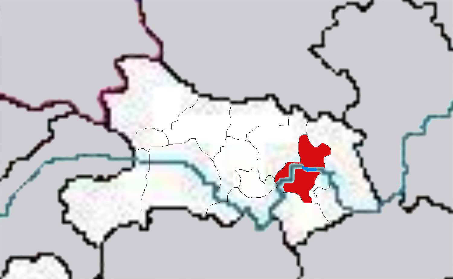 Maps of Hubei Province of China